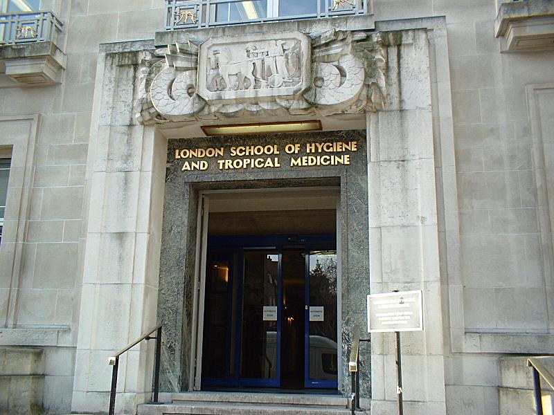 Front entrance of the London School of Hygiene and Tropical Medicine